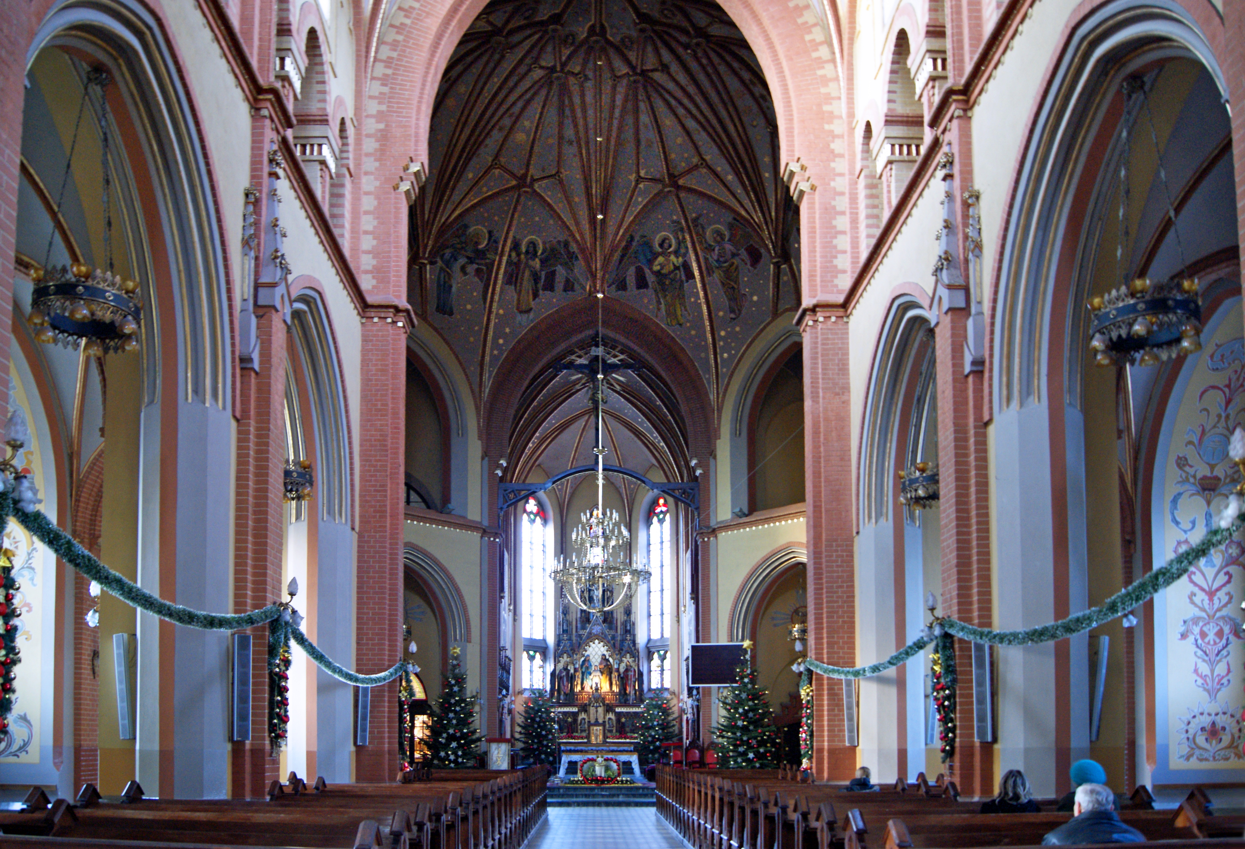 Holy Family Church, (interior), 41 Krakowska street, Tarnów, Lesser Poland Voivodeship, Poland